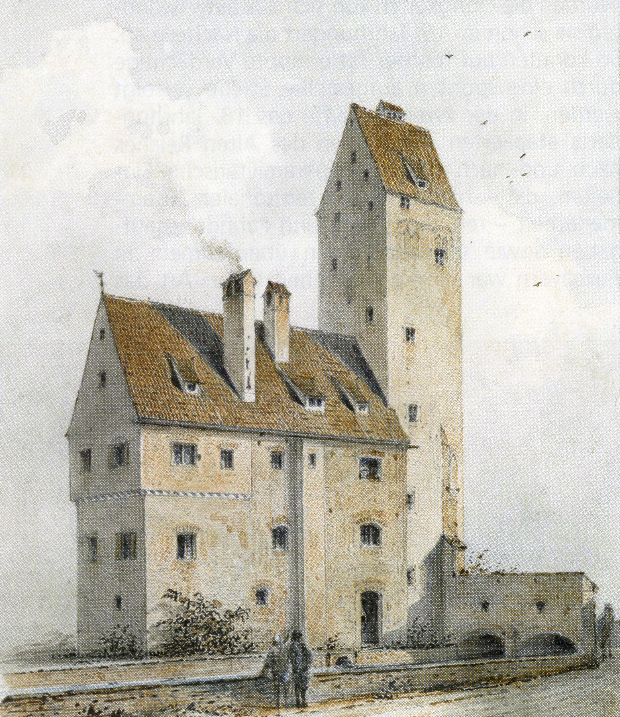 painting of Falkenturm in Munich, which was torn down in 1864